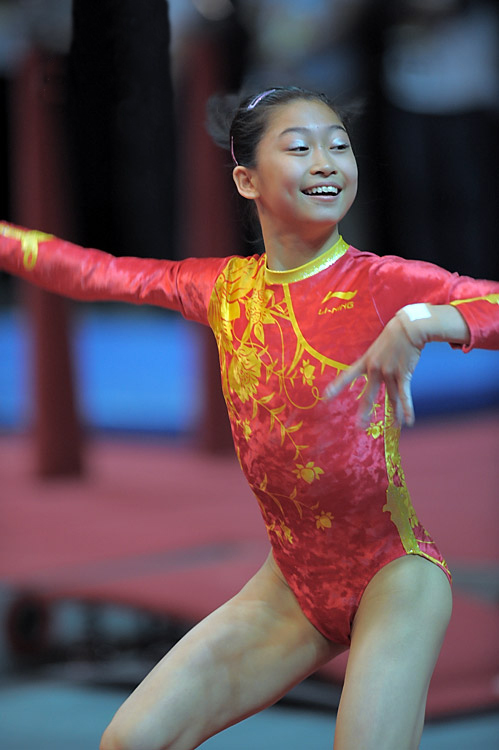 Chinese Gymnast Jiang Yuyuan doing floor exercise in the Gymnastics Show (奧運金牌精英大匯演) in Hong Kong.